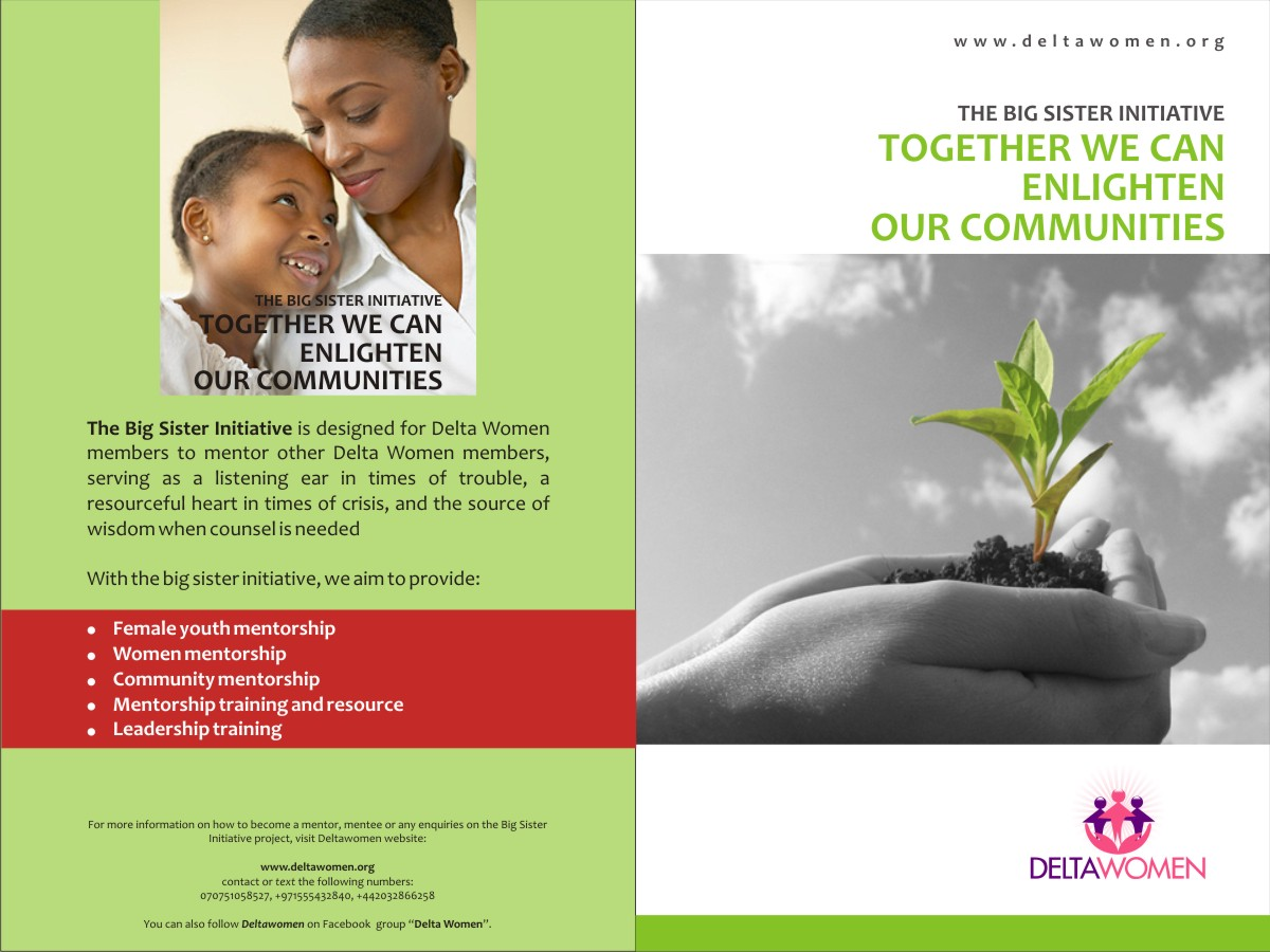 Mereje teenage pregnancy awareness